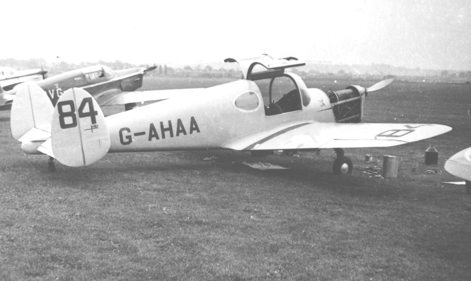 Miles M.28 Mercury 6 light aircraft of 1946 at Wolverhampton's Pendeford Airport